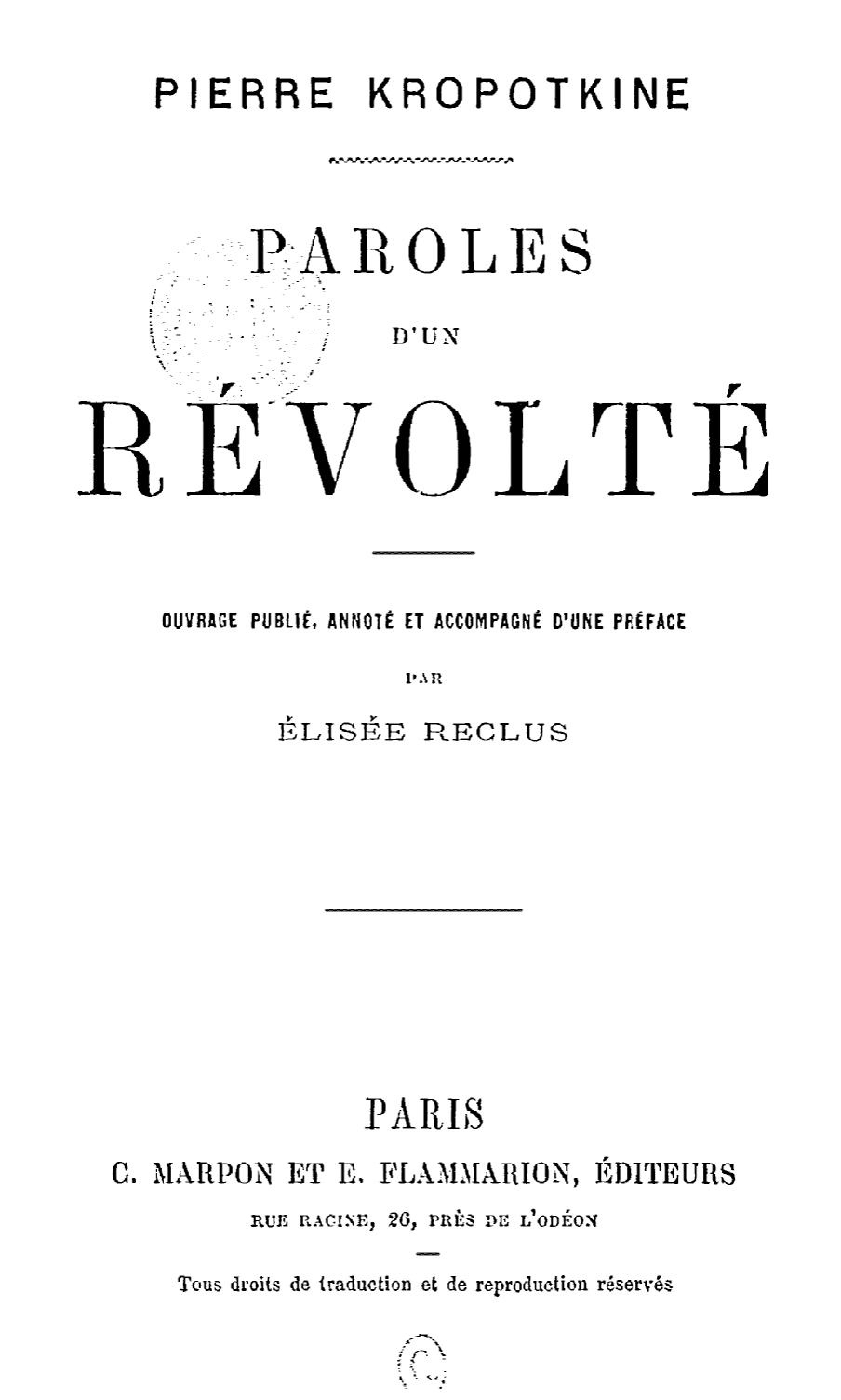 First edition of "words of a rebel" in french.